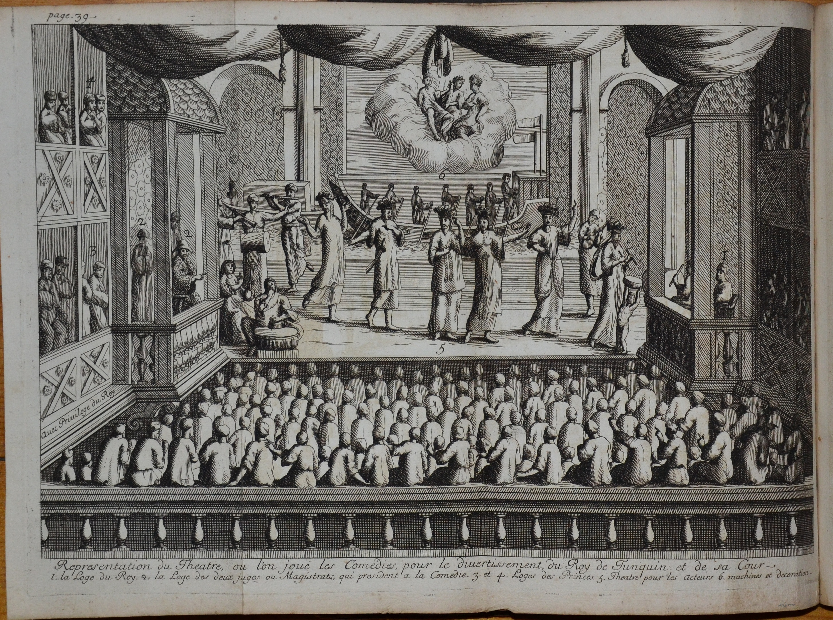 Fold-out copperplate engraving of a Comedy presentation in Tunquin from Recueil de Plusieurs Relations et Traites by J.B.Tavernier, Chevalier and Baron D'Aubonne 1679. Tavernier's account of people and customs in Asia: Persecution of Christians in Japan; Trade negotiations with India ; customs in Tunquin (now Tonkin in Vietnam) and the East Indies. With 14 full page woodcut engravings of Tunquin customs. Published by Gervais Clouzier, Paris, Full original leather binding 178 pages 26cm x 19.5cm.